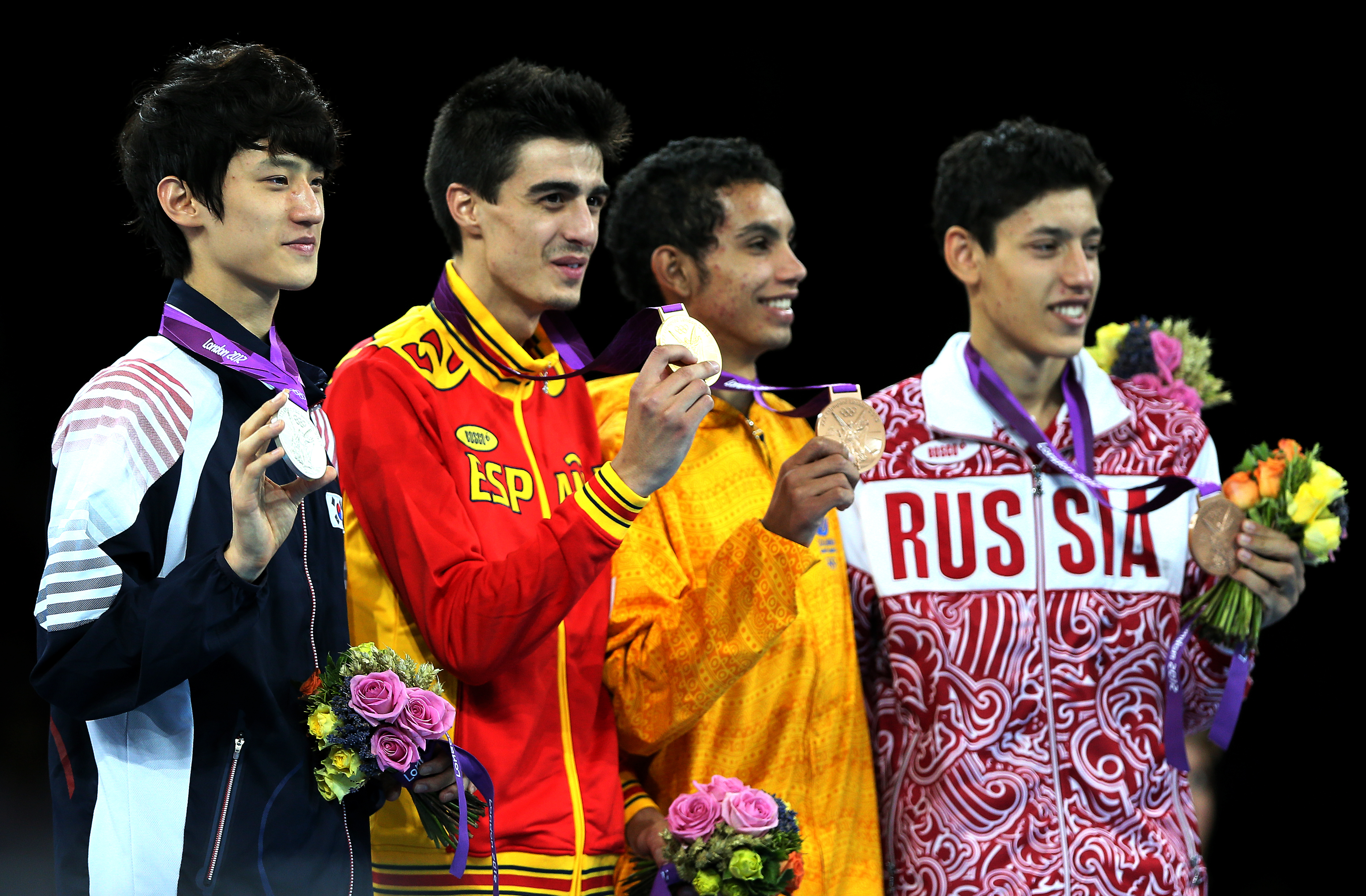 2012 London Olympic Games Korean Taekwondo Lee Dae-hoon won silver medal in men's -58kg at the ExCel Arena. 2012.08.09 Photo by Korean Olympic Committee Ministry of Culture, Sports and Tourism Korean Culture and Information Service 2012 런던 올림픽 남자 태권도 -58kg 이대훈 은메달 획득 사진제공 - 대한체육회 문화체육관광부 해외문화홍보원